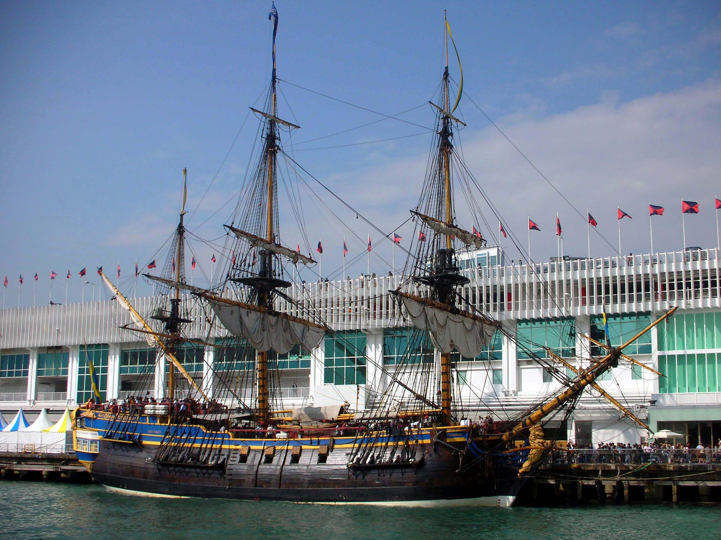 The Swedish Ship Goteborg at her roundtrip visiting Hong Kong, parked at the pier of Harbour City, Hong Kong.